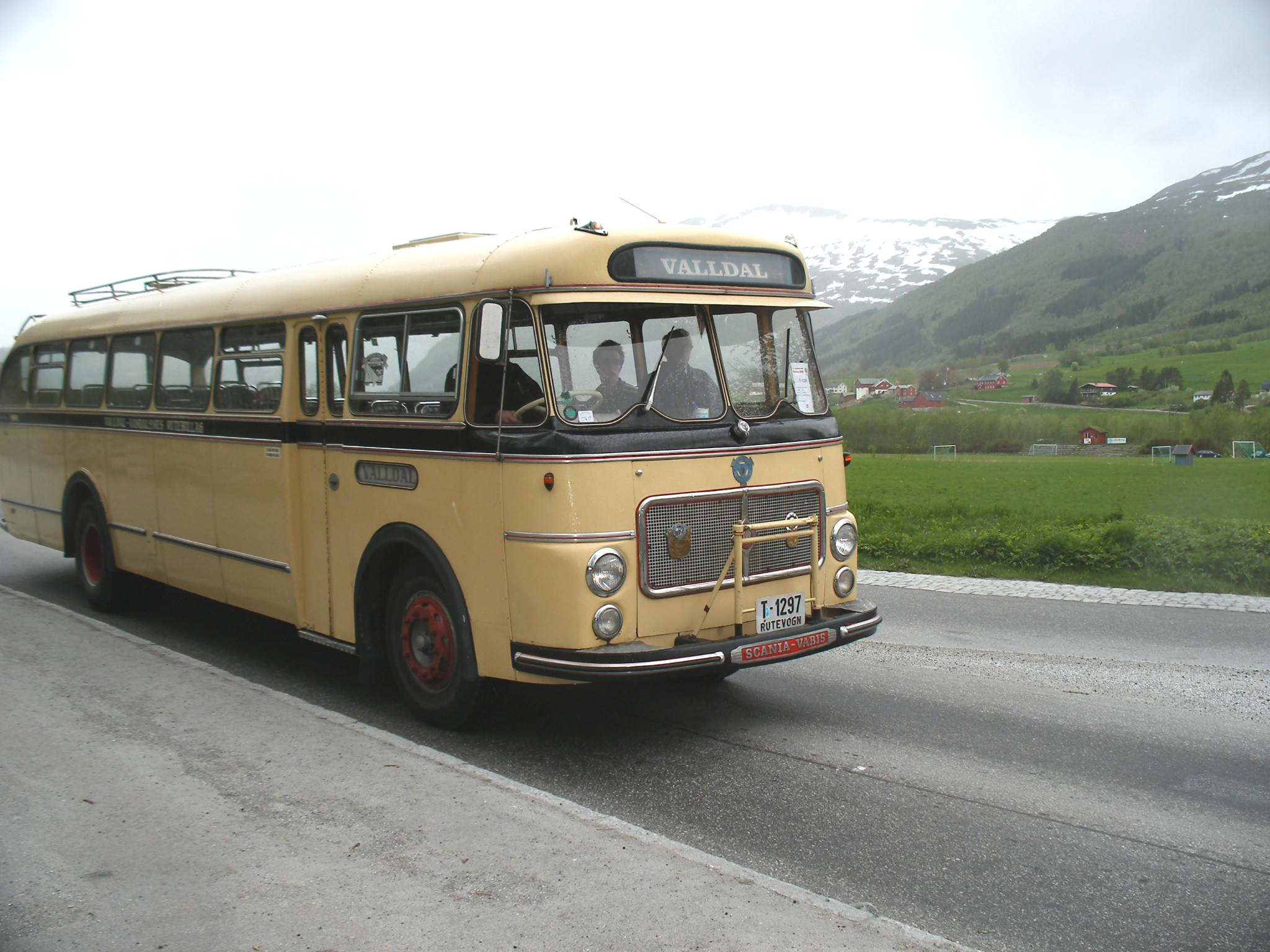 Old bus from Norway. Scania Vabis. Valldal Åndalsnes Rutebillag.